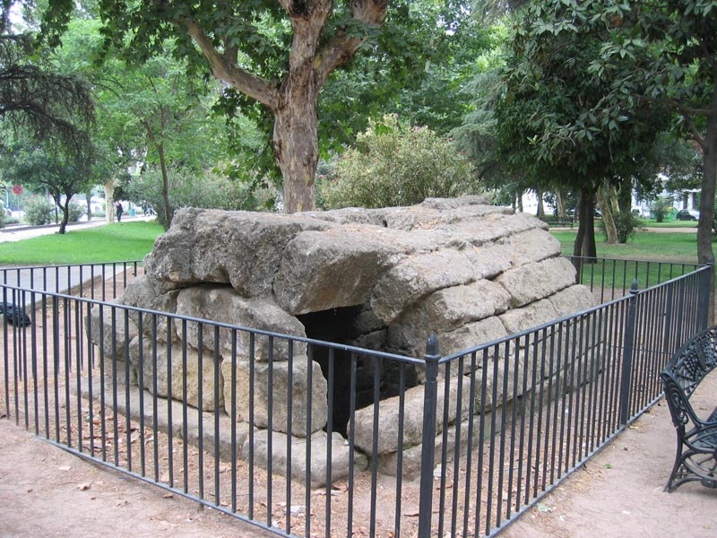 Vallellano Gardens in Córdoba, Spain.